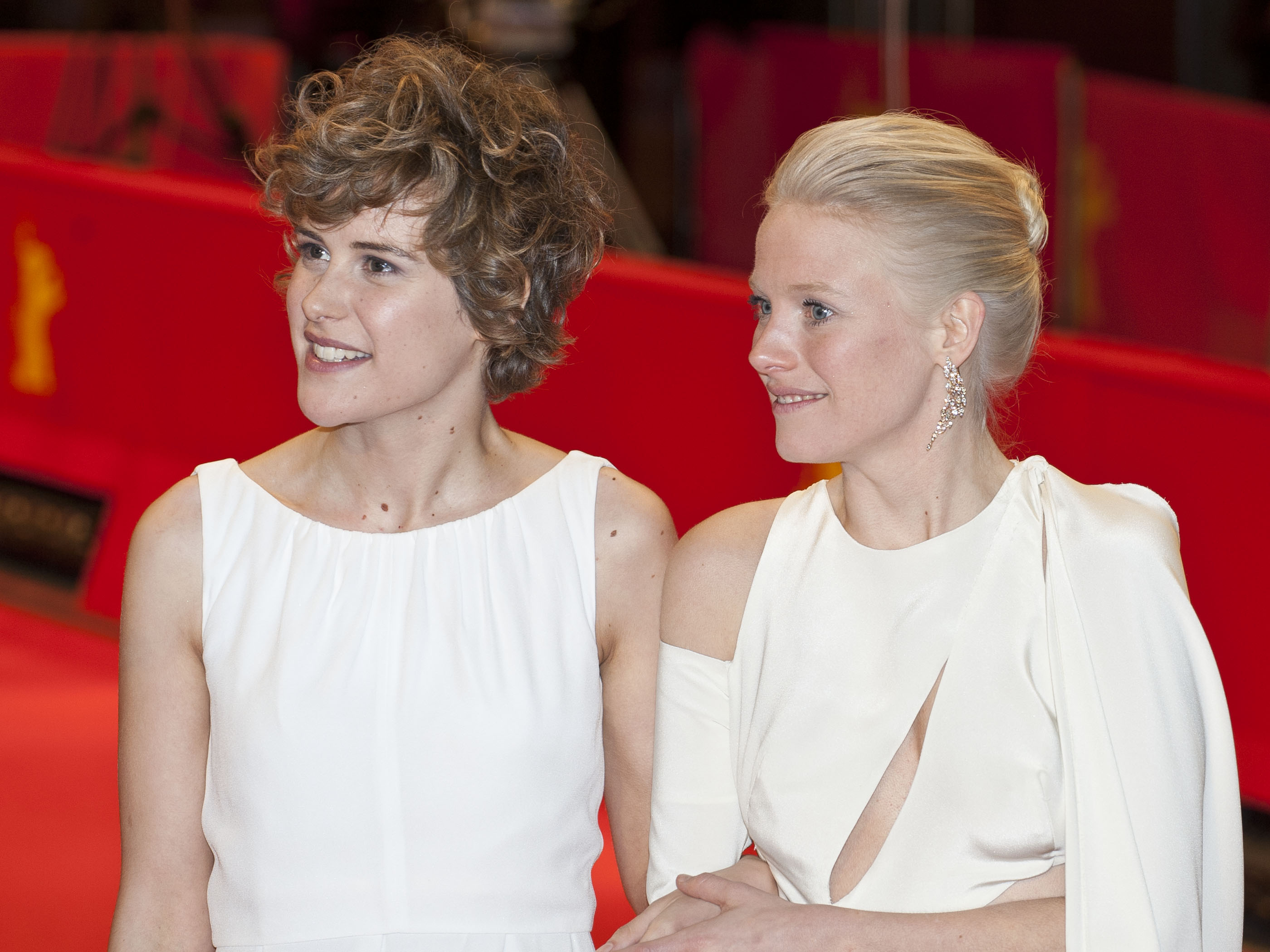 Actresses Carla Juri (Switzerland, left) and Laura Birn (Finland, right) after the European Shooting Stars Award Ceremony